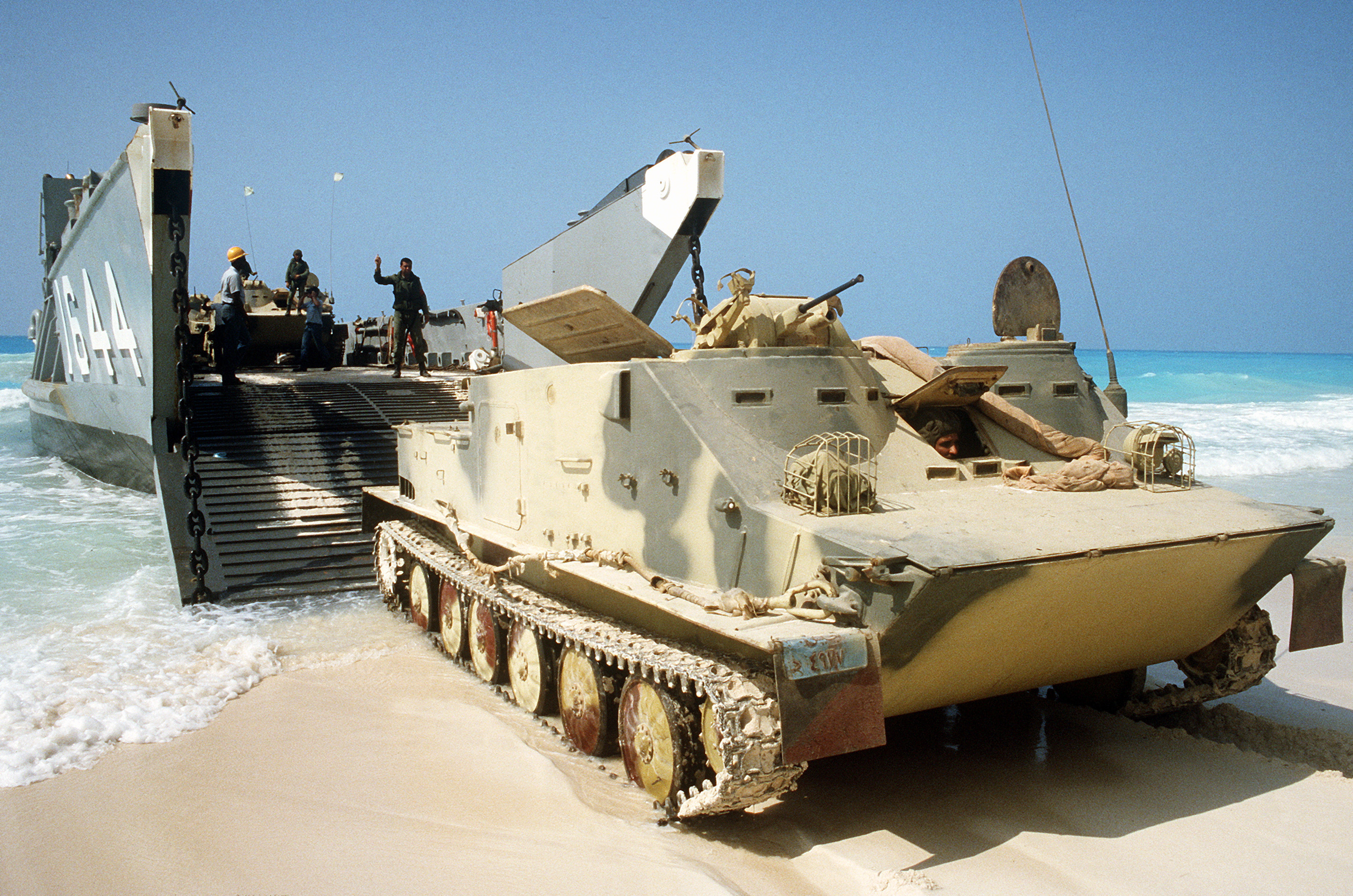 An Egyptian OT-62B armored personnel carrier comes ashore from utility landing craft 1644 (LCU-1644) during an amphibious assault in support of the multinational joint service Exercise Bright Star '85.